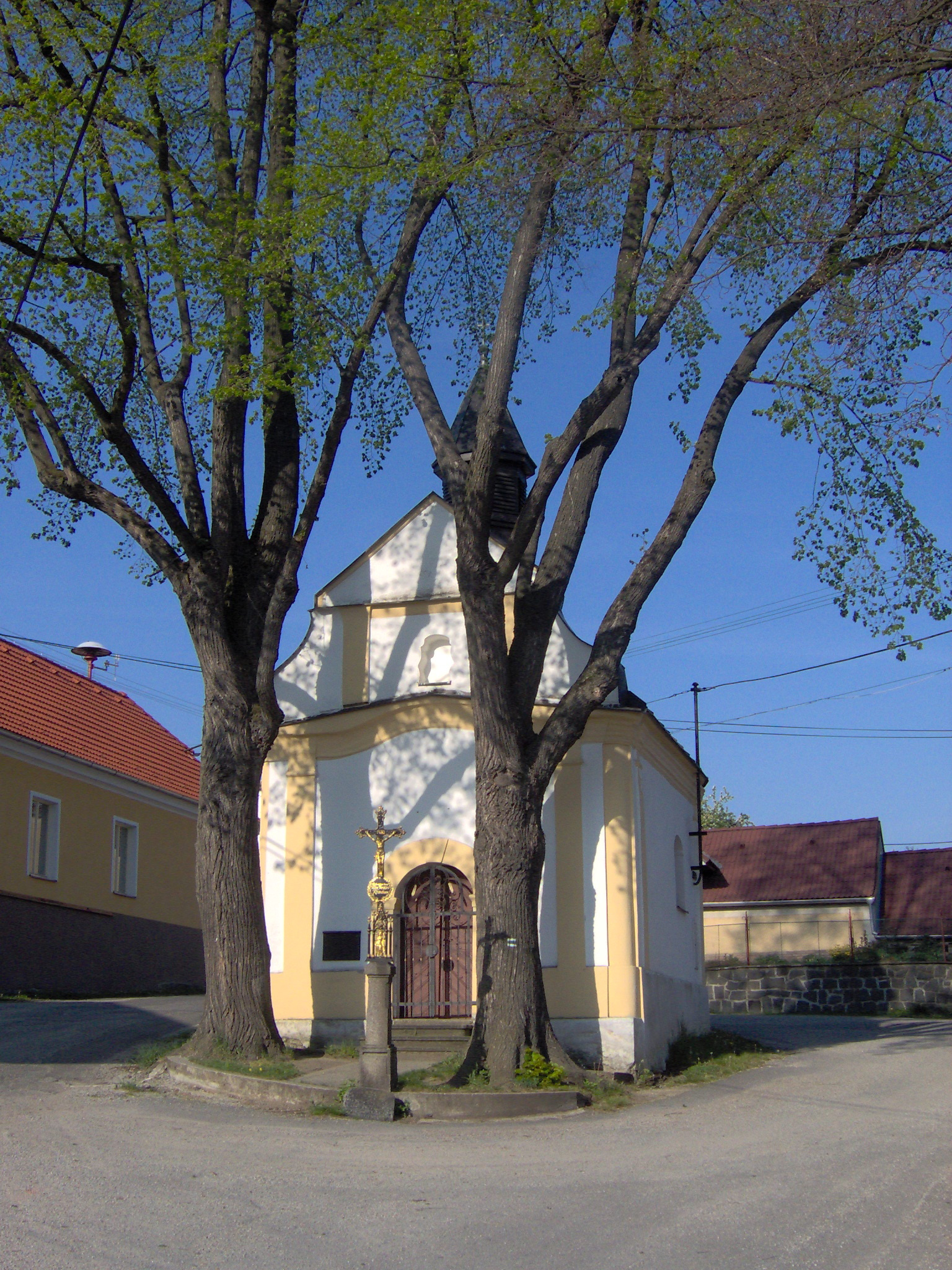 Chapel in Strašice, Strakonice District, Czech republic